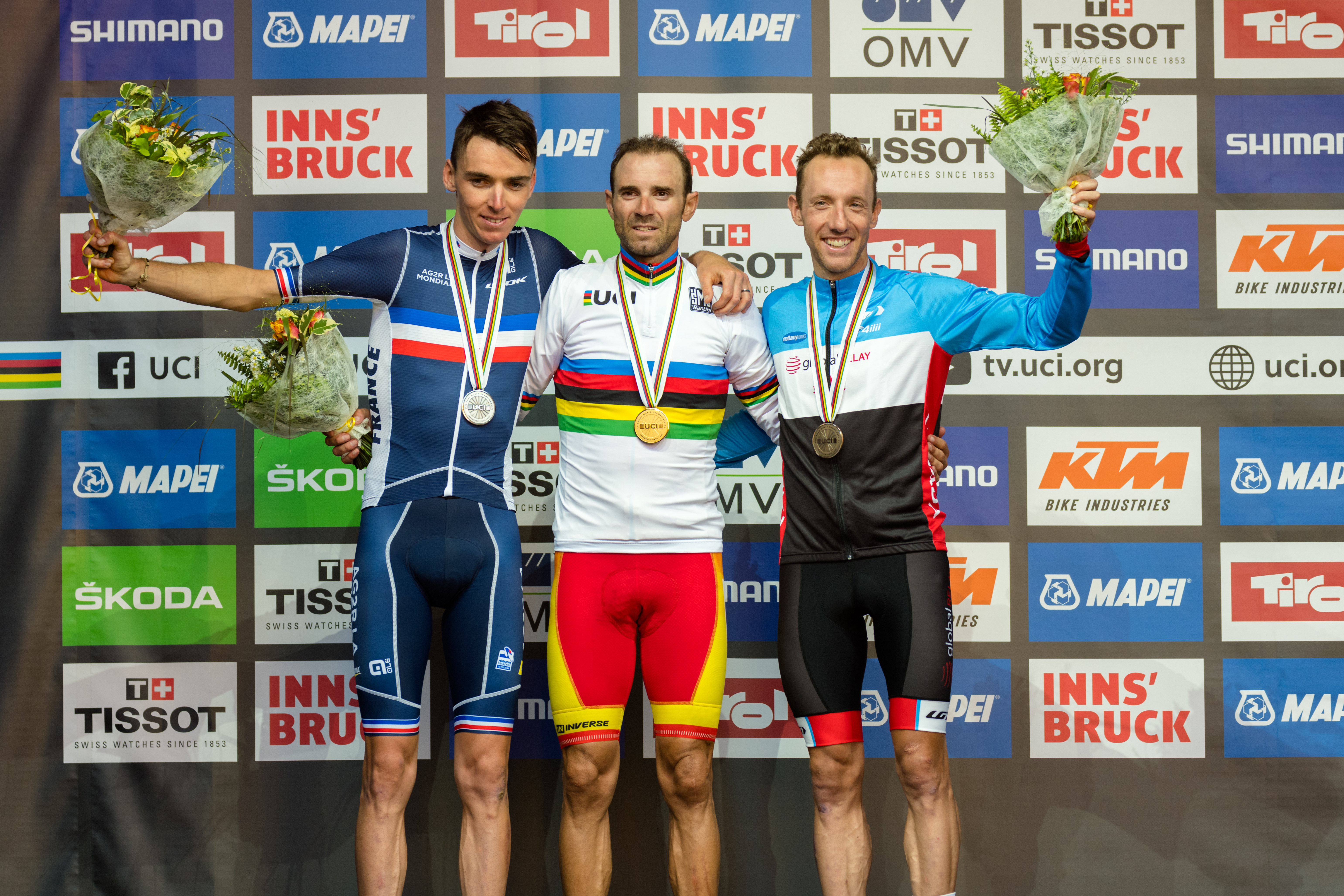 2018 UCI Road World Championships Innsbruck/Tirol Men Elite Road Race. Picture shows: Award Ceremony with Romain Bardet of France, winner Alejandro Valverde of Spain and Michael Woods of Canada